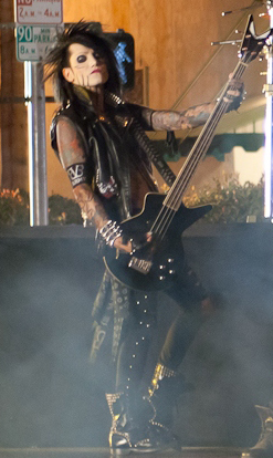 Behind the scenes shots of Black Veil Brides shooting their music video for "Rebel Love Song".